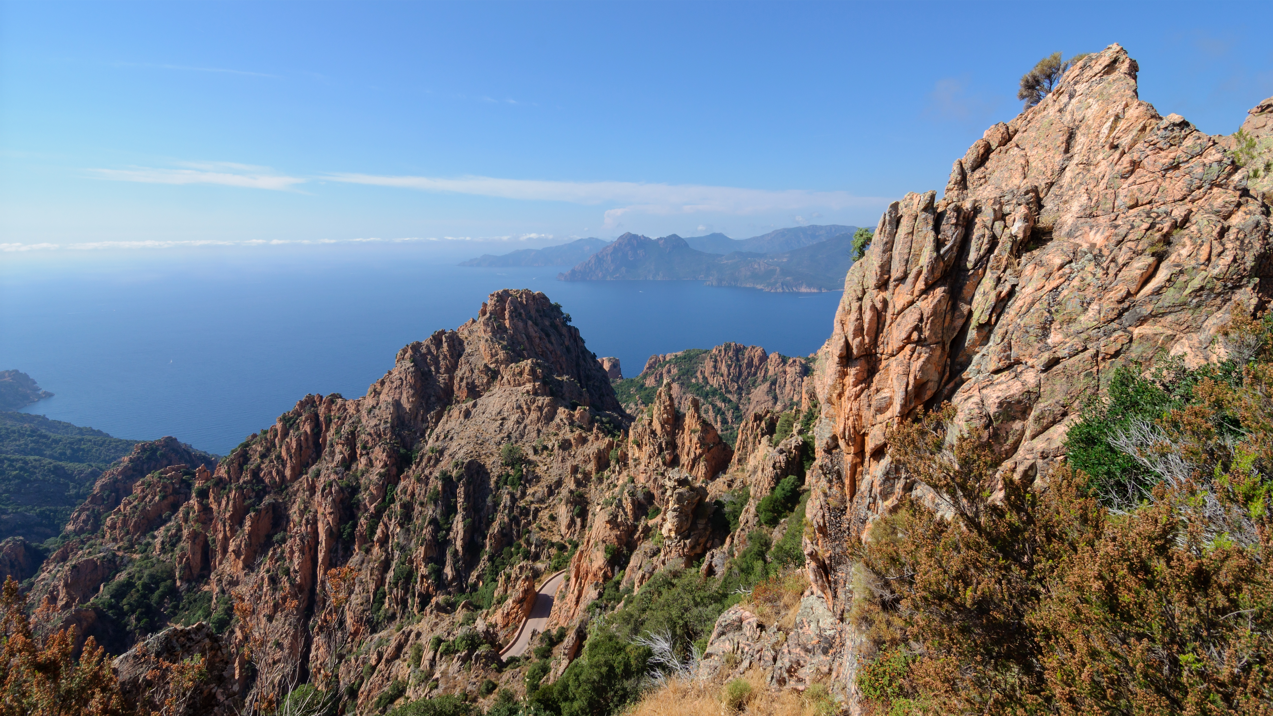 Piana, Southern Corsica, France : the Calanques of Piana.